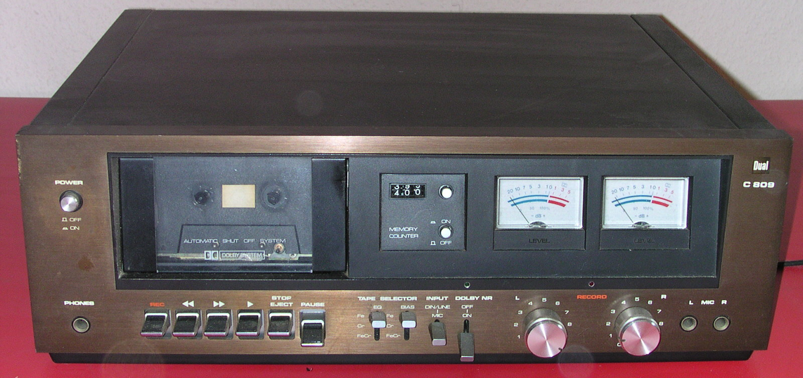 Dual C809 tape deck with memory